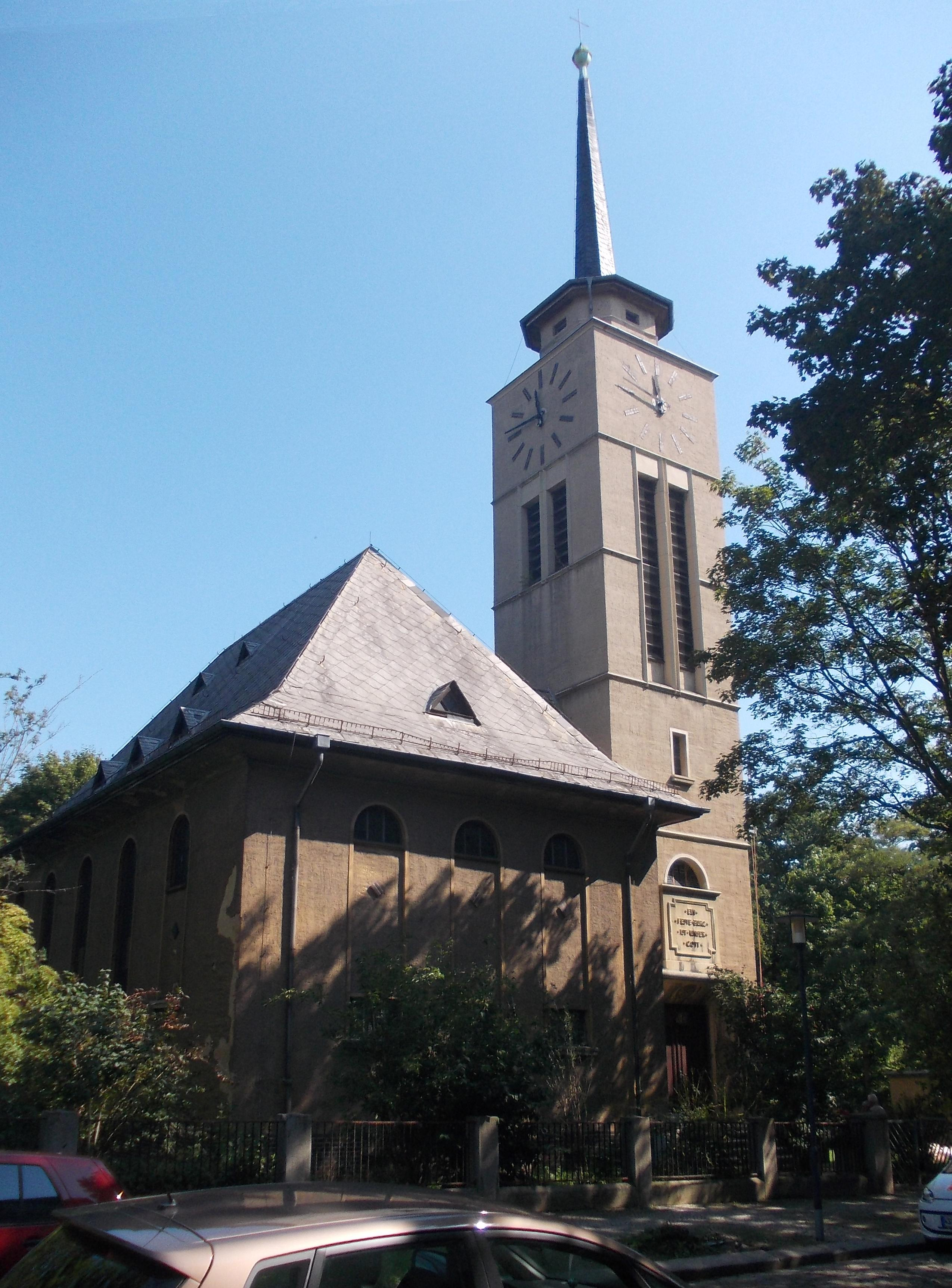 Luther Church in Weissenfels (district: Burgenlandkreis, Saxony-Anhalt)